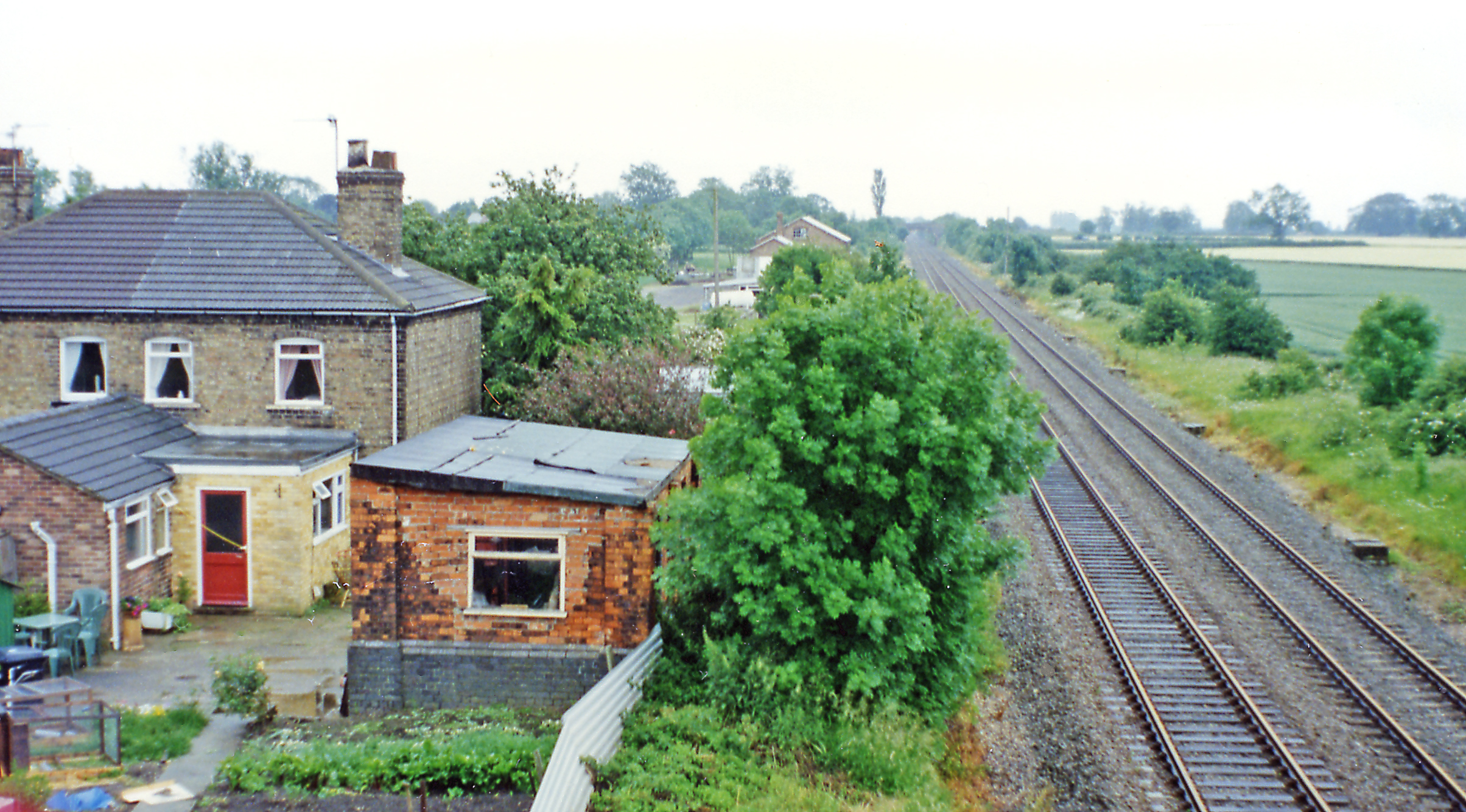 Site of Helpringham station. View SE, towards Spalding and March: ex-GN & GE Joint main line, March - Spalding - Sleaford - Lincoln - Doncaster. The station was closed to passengers 4/7/55, to goods 7/12/64.